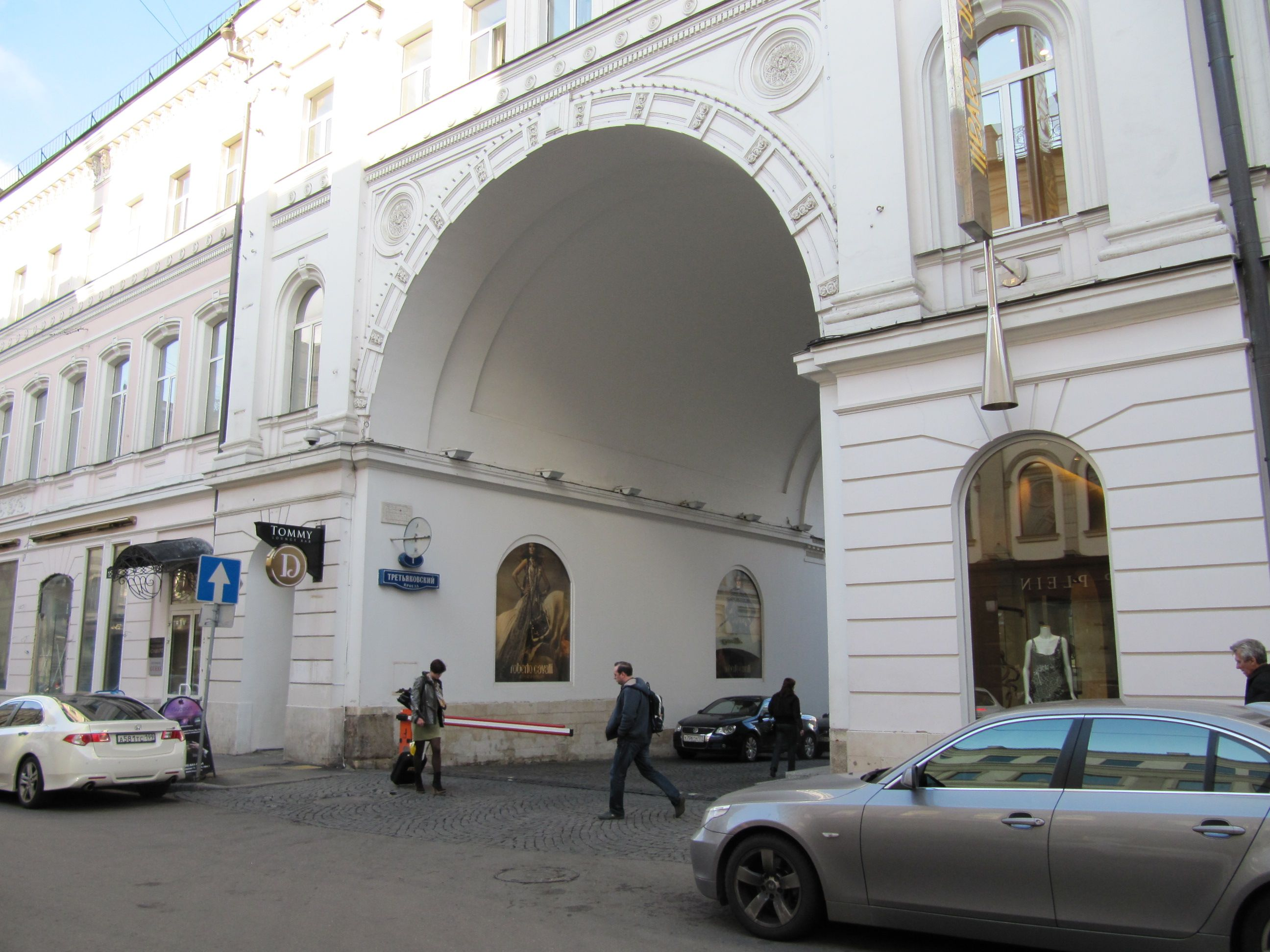 Tretyakov passage in Moscow (view from Nikolskaya street)